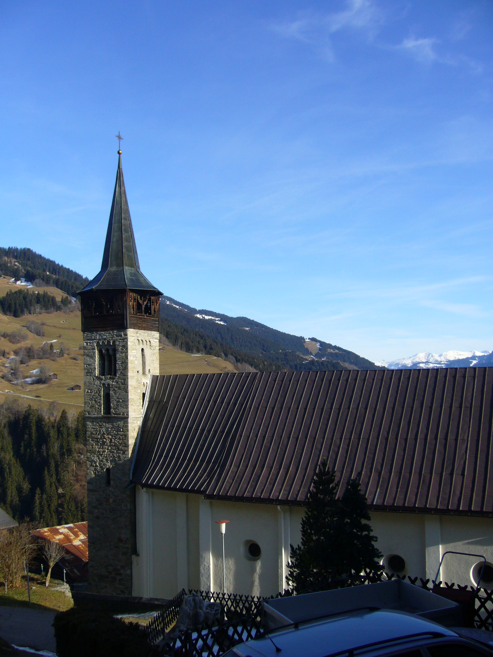 Church in Andiast. Village in the canton of Graubünden, Switzerland. Picture taken by Peter Berger, December 31, 2006.